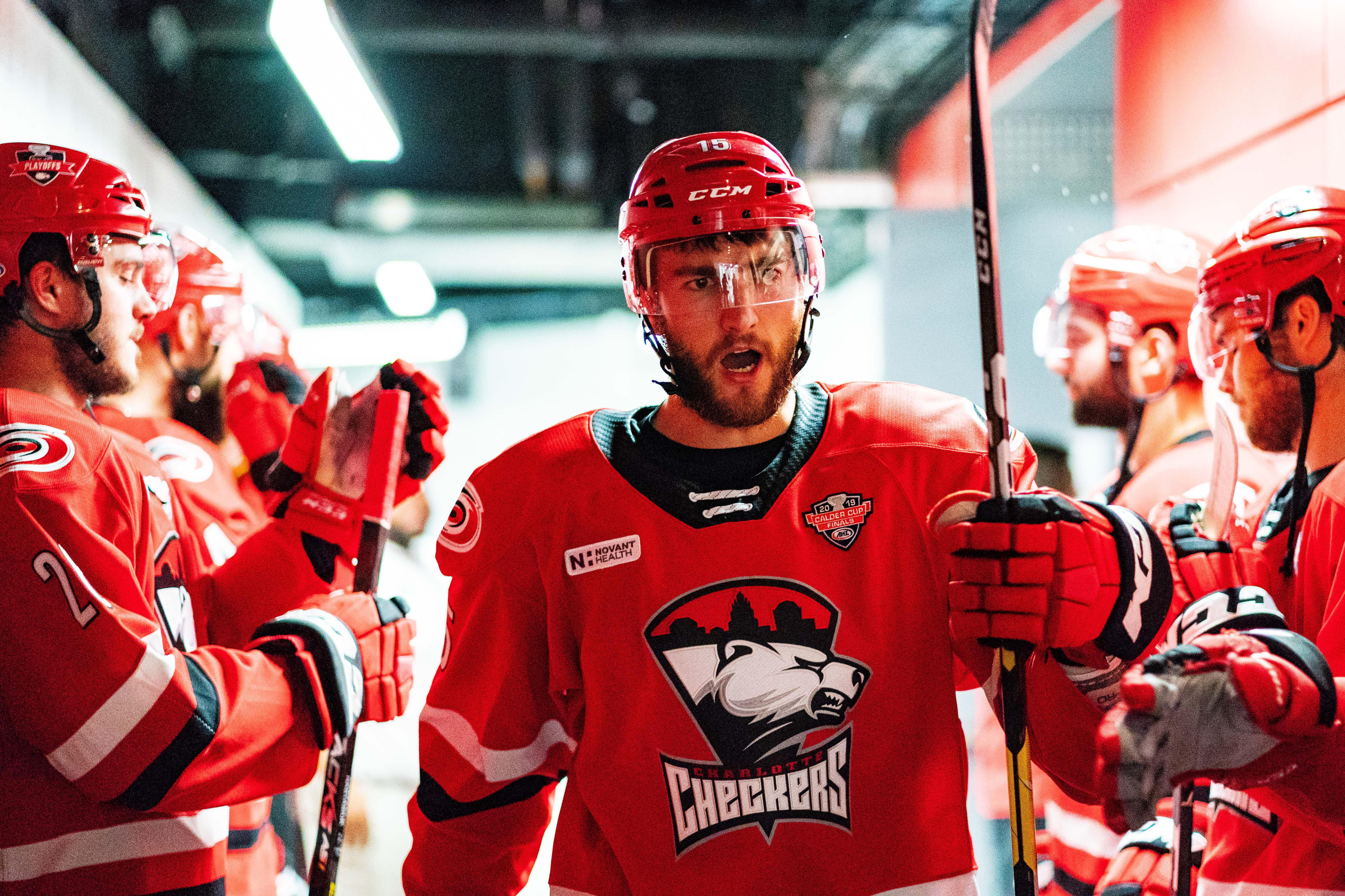 Photo: Jacob Kupferman